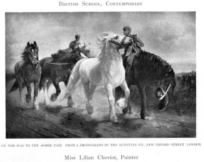 1905 print after page of Women painters of the world, from the time of Caterina Vigri, 1413-1463, to Rosa Bonheur and the present day, by Walter Shaw Sparrow, The Art and Life Library, Hodder & Stoughton, 27 Paternoster Row, London